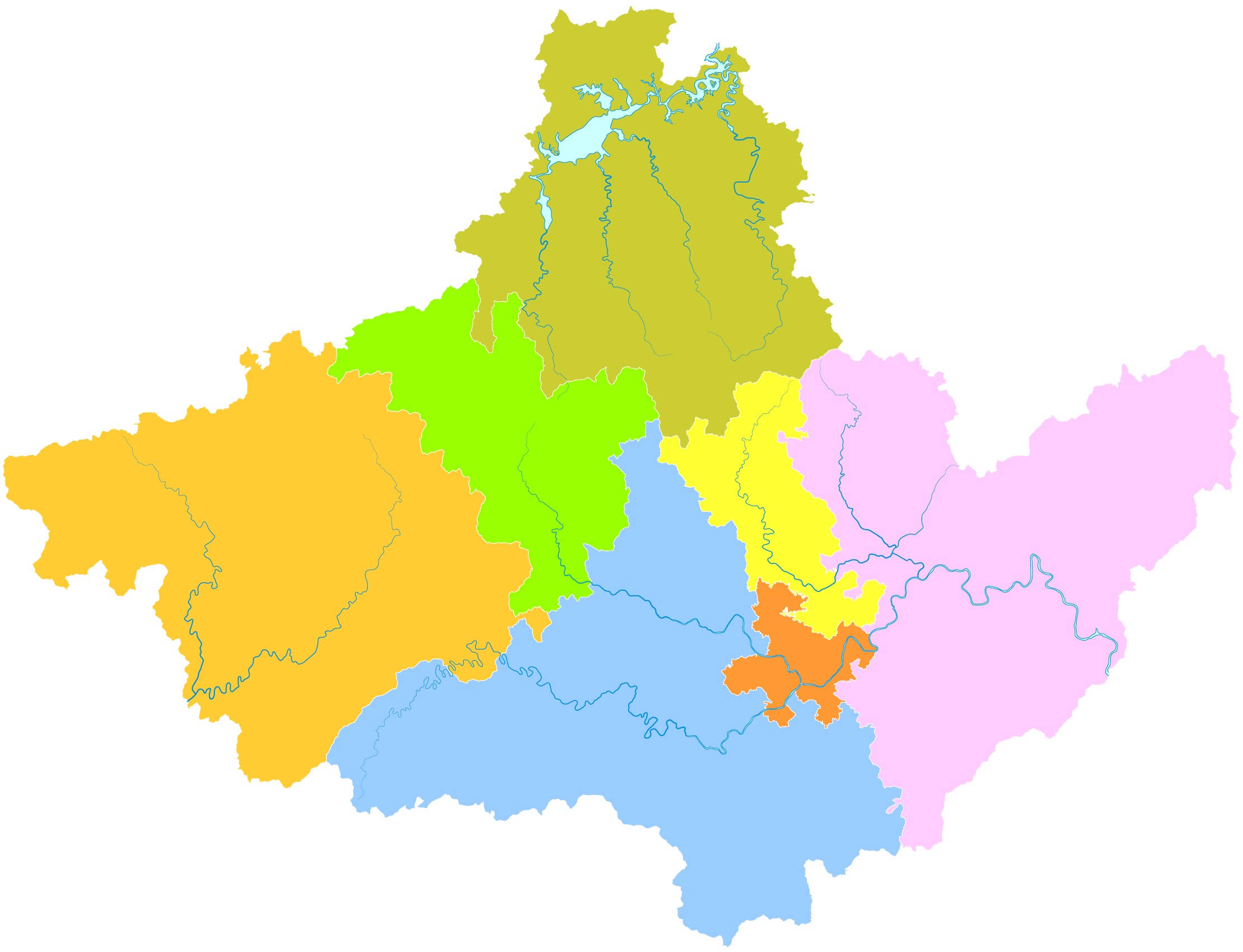 administrative divisions of Huangshan City, Anhui, China